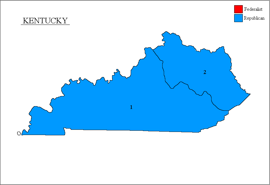 Congressional district map of Kentucky for the 5th Congress, 1796